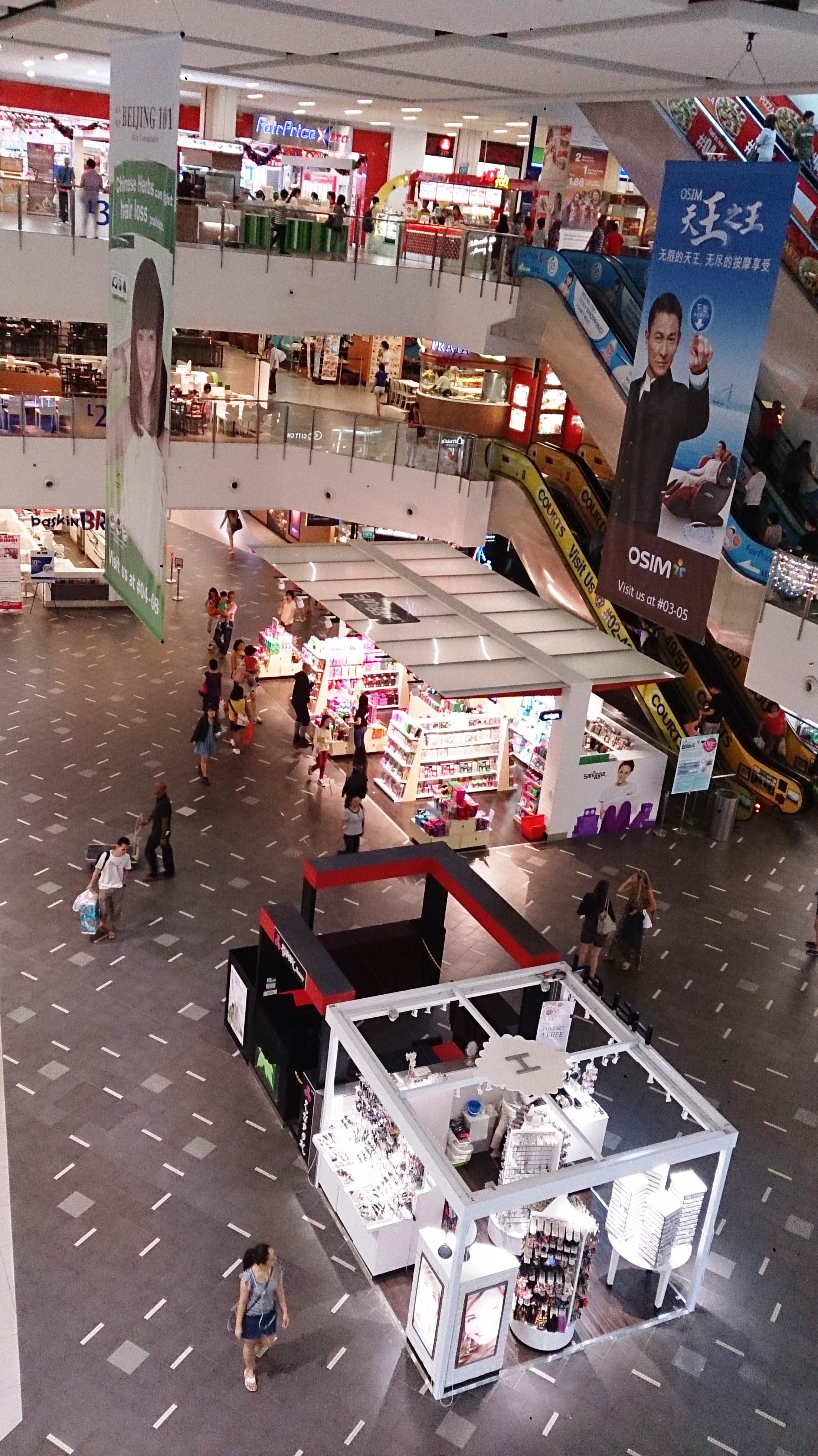 nex shopping center at Serangoon, Singapore